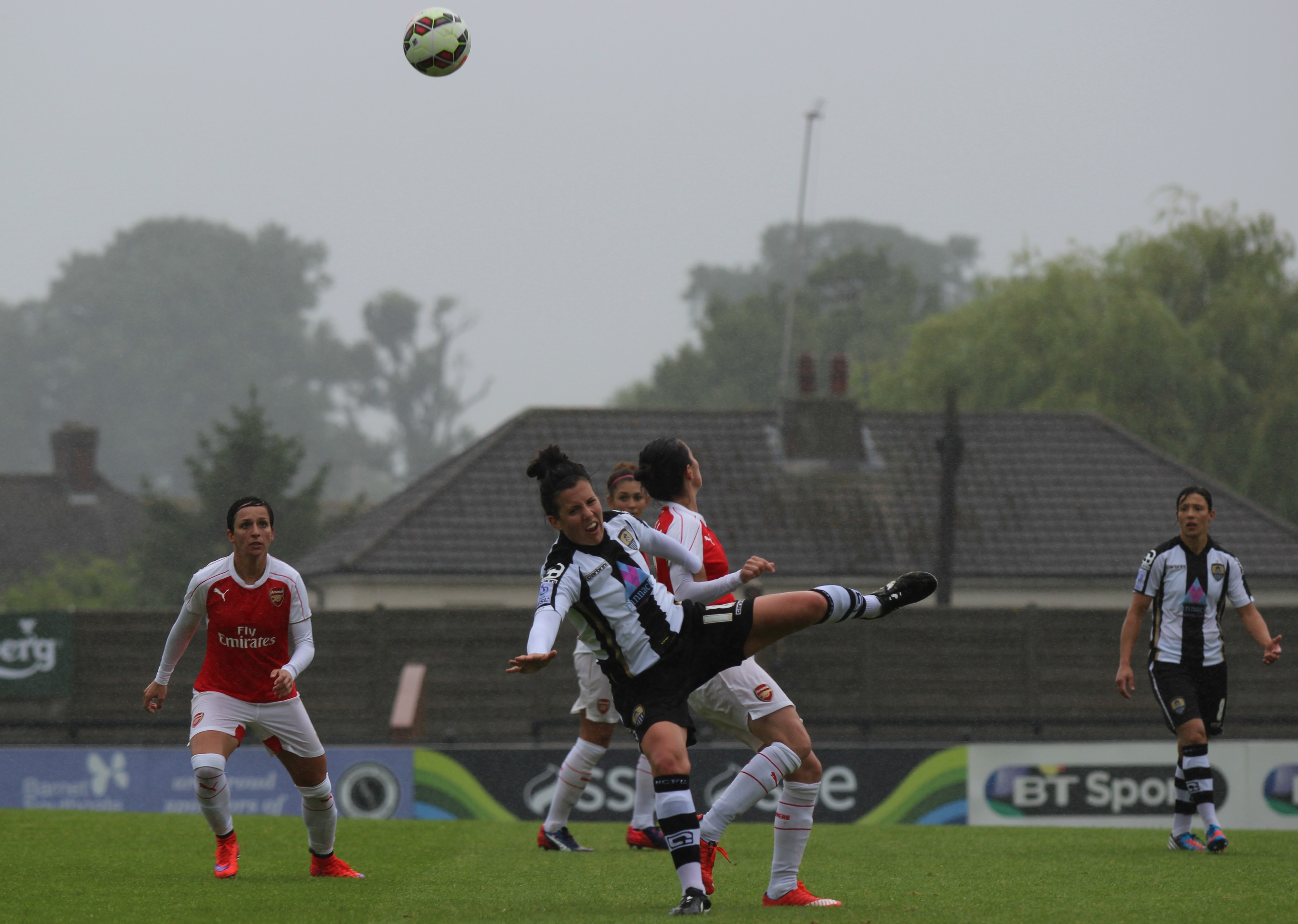 Natalia Pablos Sanchon of Arsenal Ladies jumps for a header during the game against Notts County.